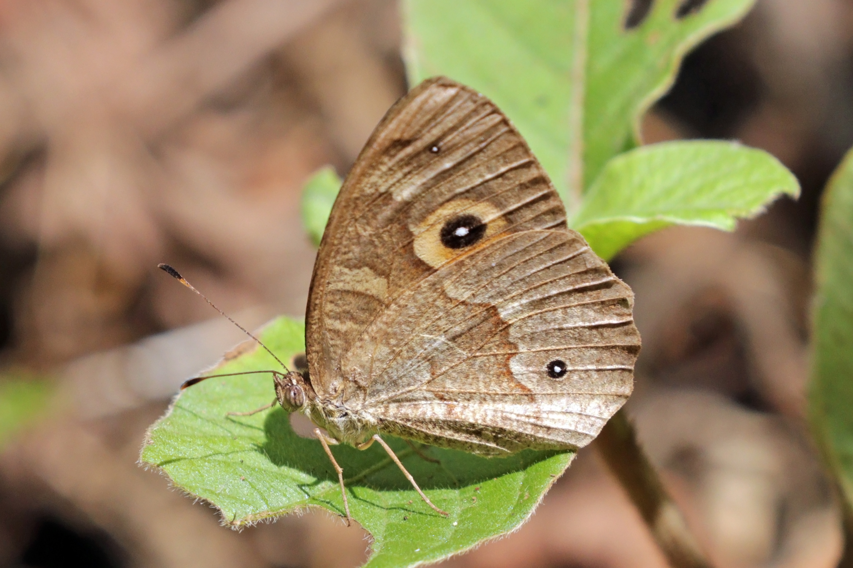 Heteropsis avaratra female, Montagne d'Ambre National Park. Identified by Dr David Lees